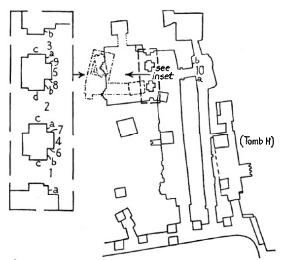 Plan of the Tomb of Bunefer at Giza. 26th century BC architecture